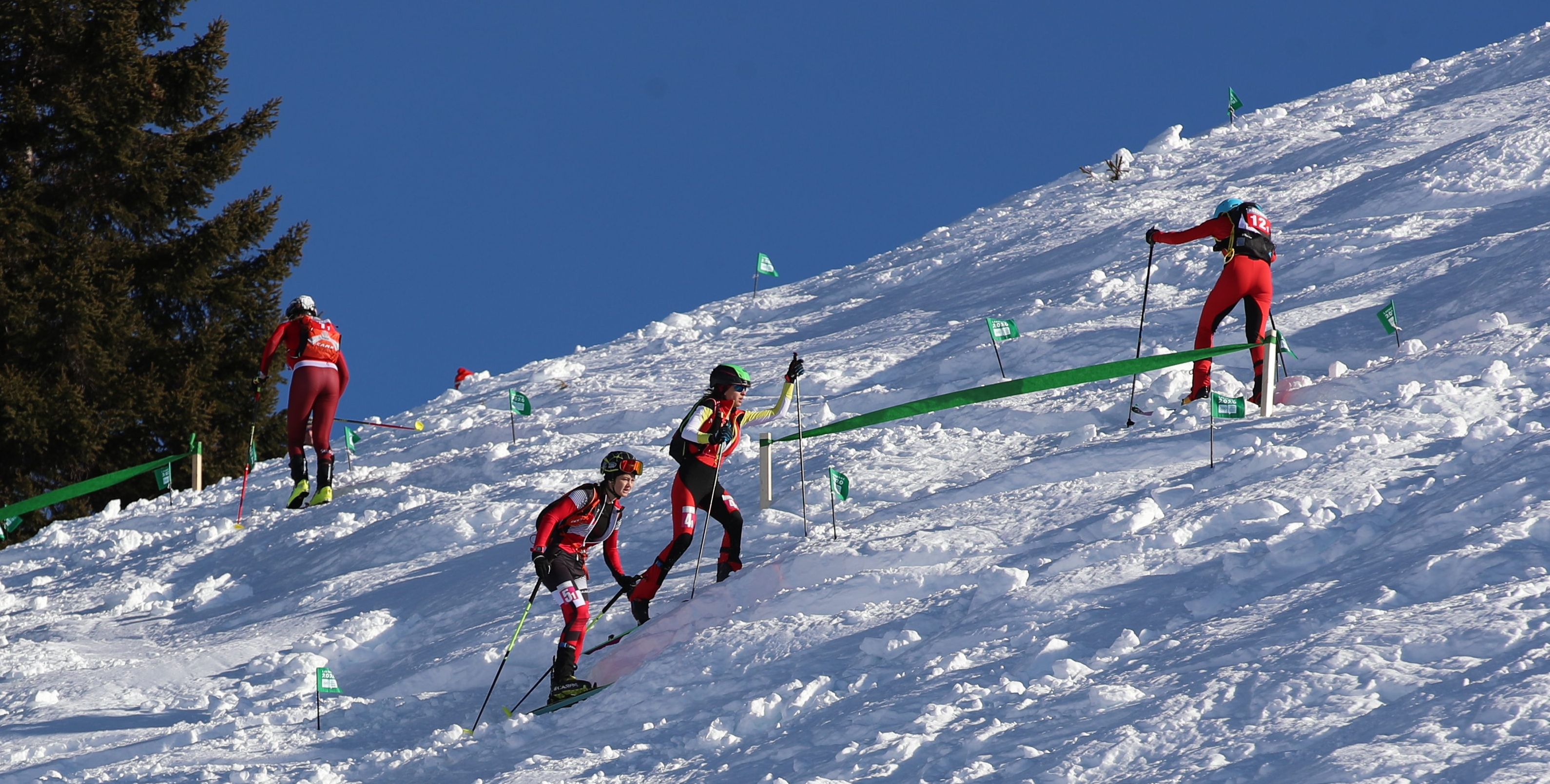 Ski mountaineering Mixed Relay at the 2020 Winter Youth Olympics in Lausanne